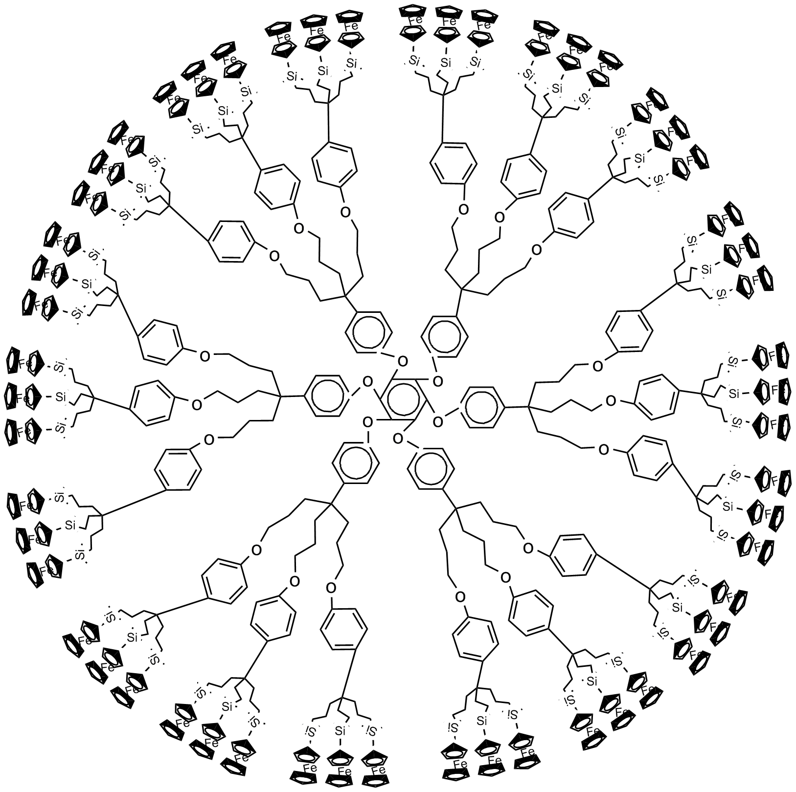 Dendrimer with 54 ferrocenes attached